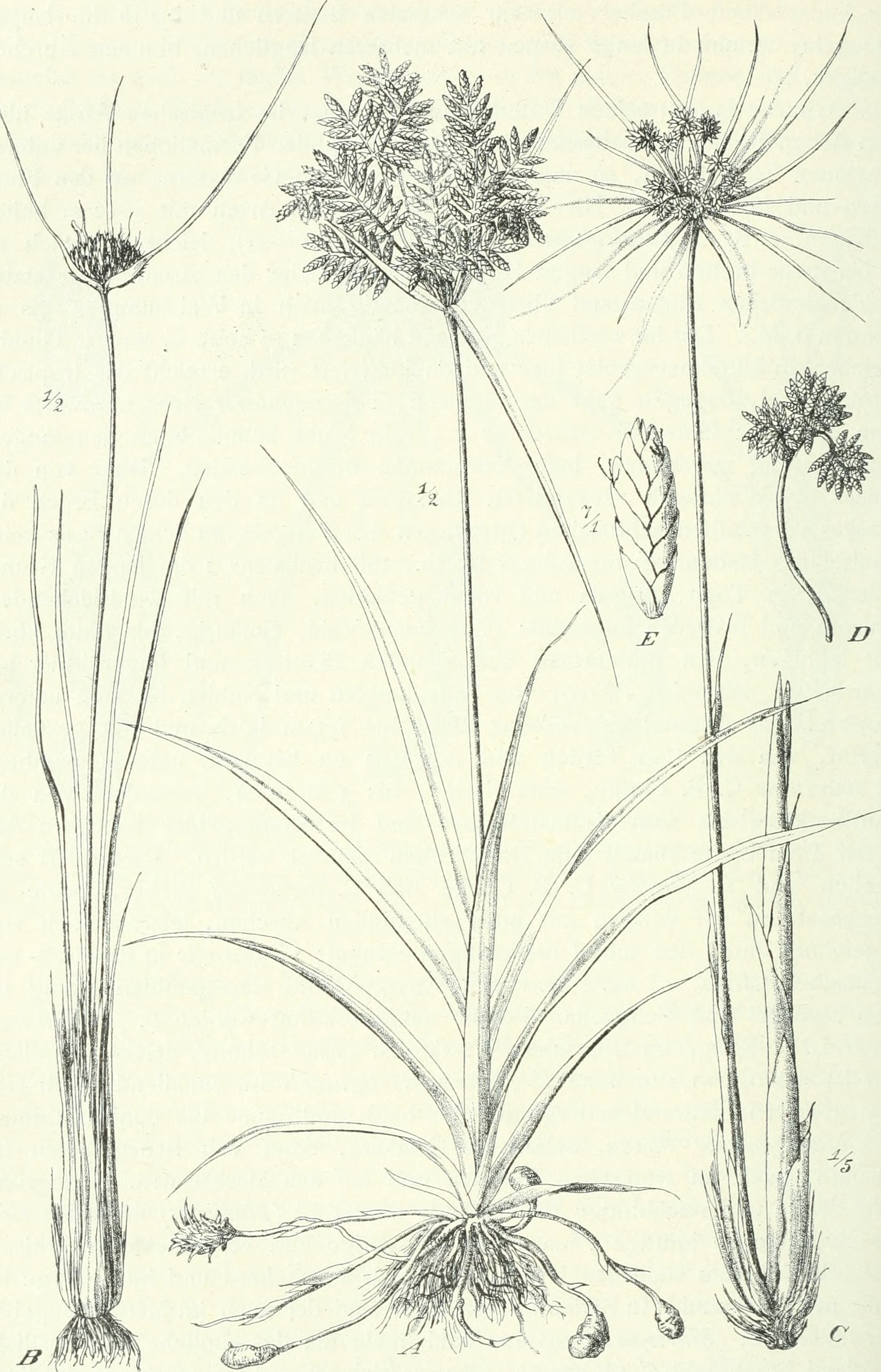 Title: Die Pflanzenwelt Afrikas, insbesondere seiner tropischen Gebiete : Grundzge der Pflanzenverbreitung im Afrika und die Charakterpflanzen Afrikas Year: 1910 (1910s) Authors: Engler, Adolf, 1844-1930 Subjects: Botany Publisher: Leipzig : W. Engelman Text Appearing Before Image: 198 Glumiflorae. — Cyperaceae. Text Appearing After Image: Fig. 138. A Cyperus esculentus L.; ß C. kyllingioides Vahl; C—E C. flabelliformis Rottb.